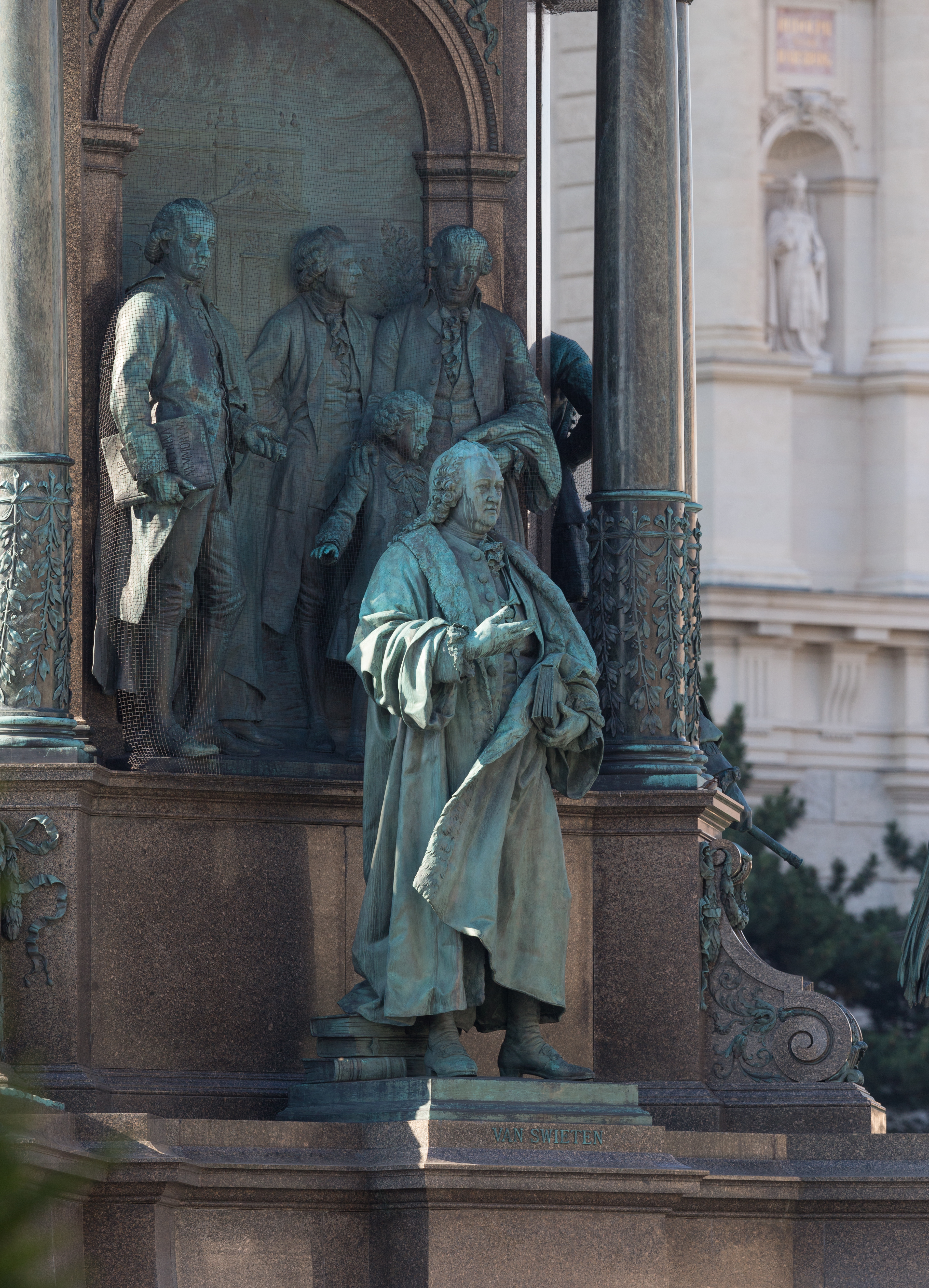 Maria-Theresia-square, Maria-Theresia monument, artist: Kaspar von Zumbusch (errected 1874-1888), main figure The making of this work was supported by Wikimedia Austria. For other files made with the support of Wikimedia Austria, please see the category Supported by Wikimedia Österreich.